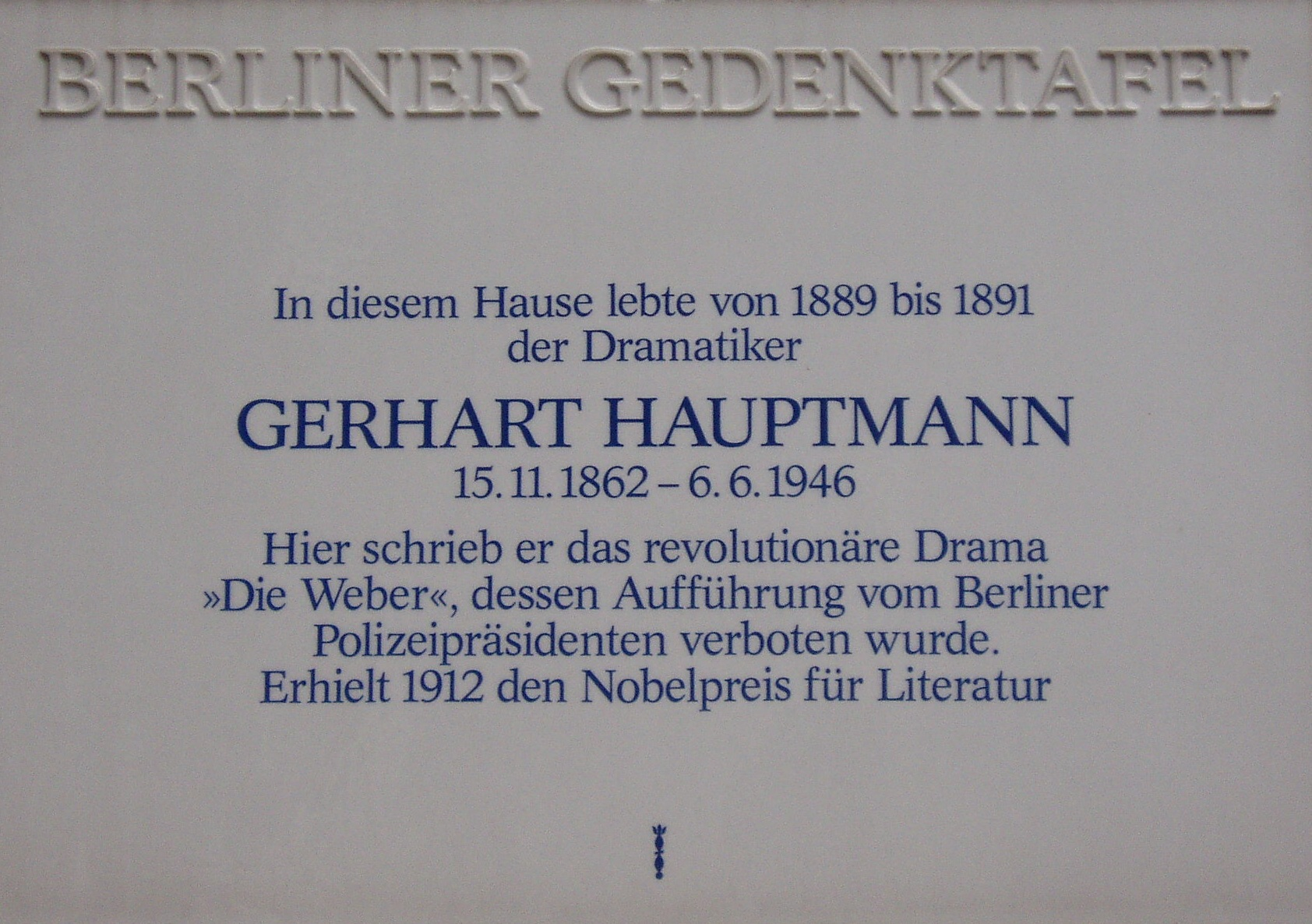 Berliner Gedenktafel (Berlin memorial plaque) for Gerhart Hauptmann in Berlin-Charlottenburg, Schlüterstraße 78